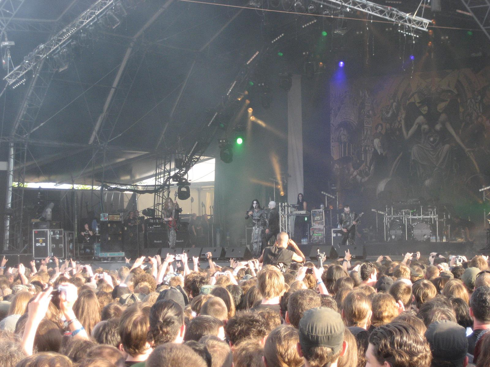 Dimmu Borgir live at Hellfest 2008.